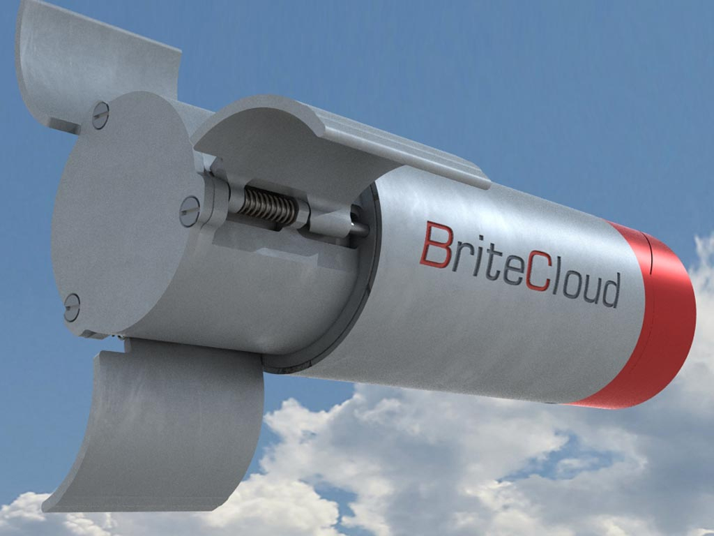 An image of Selex ES' BriteCloud